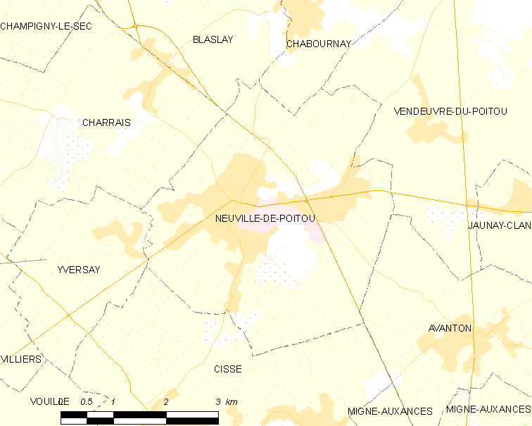 Map of French municipality Neuville-de-Poitou